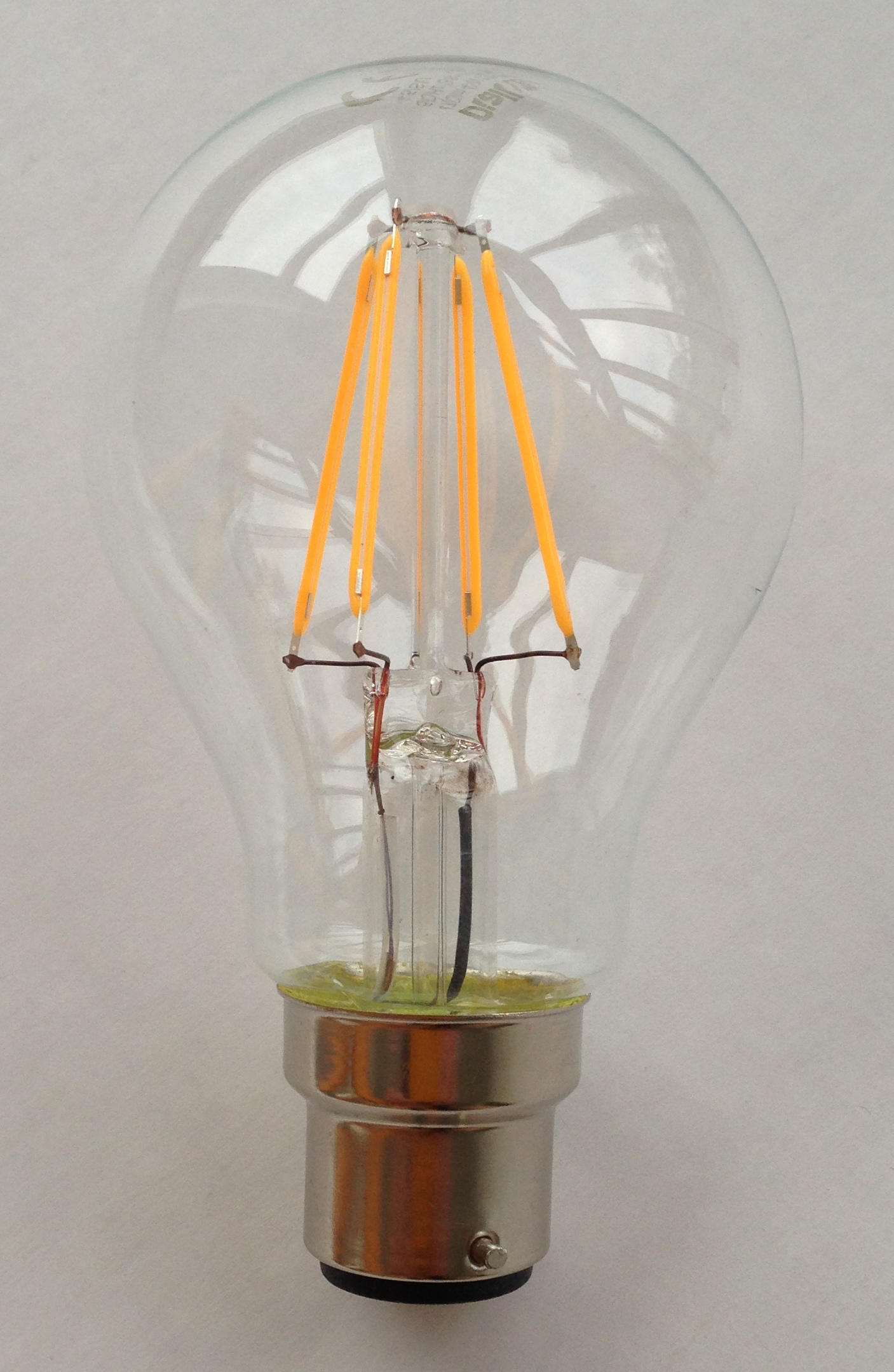 Photo of a Diall LED Filament light bulb